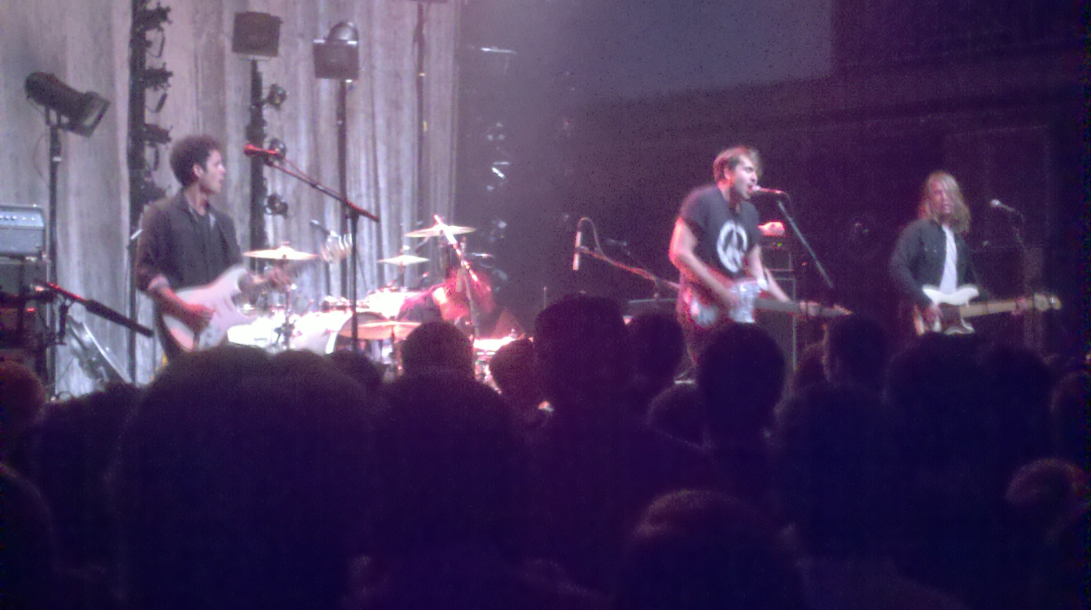 The Vaccines performing at the 9:30 Club in Washington, D.C. on 17 May 2011.